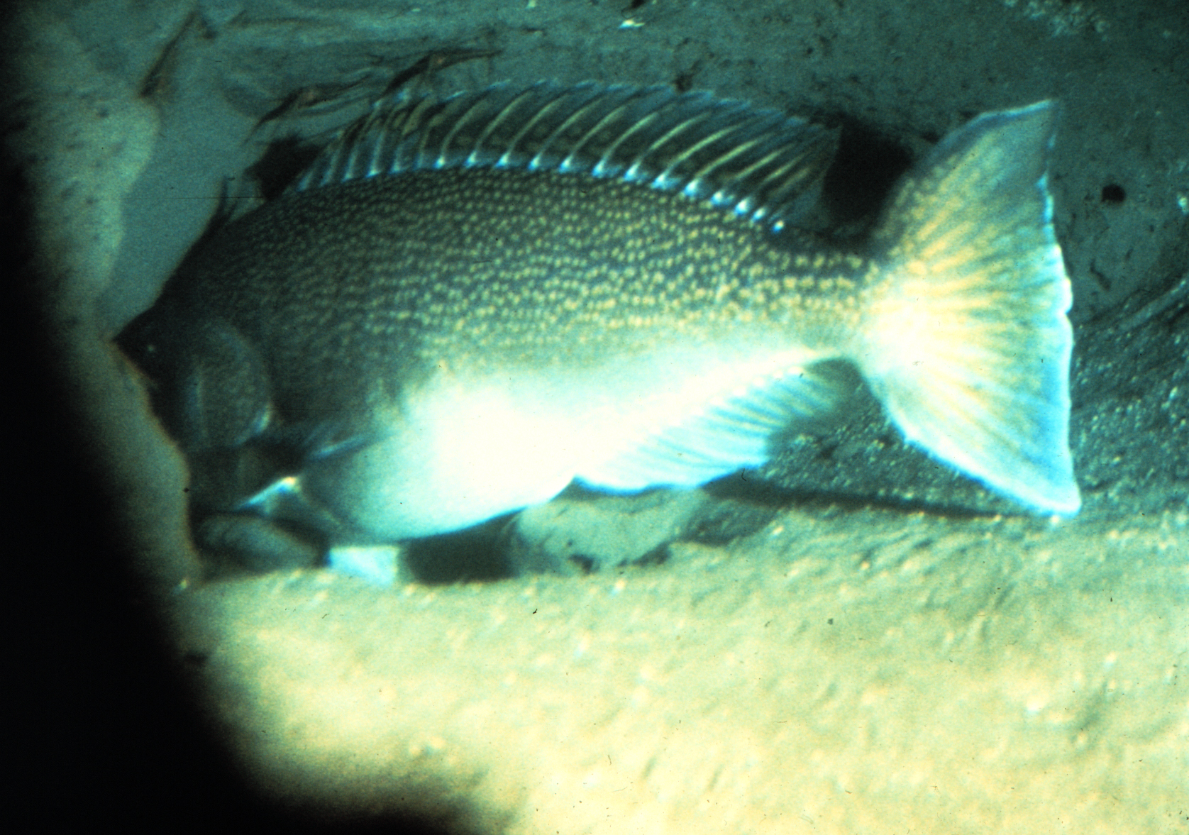 Tilefish live in burrows, sometimes forming undersea Pueblo villages. Lopholatilus chamaeleonticeps Lopholatilus chamaeleonticeps . Image ID: nur00504, National Undersearch Research Program (NURP) Collection Location: Atlantic Ocean, Veatch Canyon. Photographer: R. Cooper Credit: OAR/National Undersea Research Program (NURP); University of Connecticut at Avery Point Downloaded from